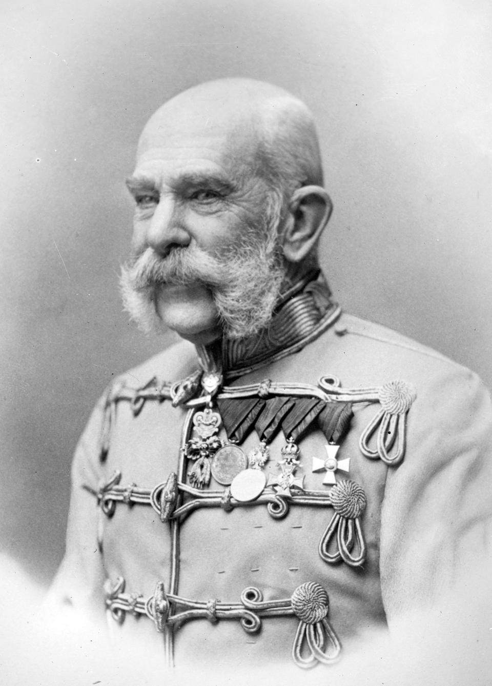 Emperor Franz Josef of Austria, in uniform, 1903. Credit: Library of Congress of the USA.